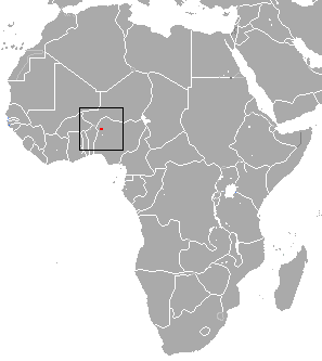 Savanna Swamp Shrew (Crocidura longipes) range